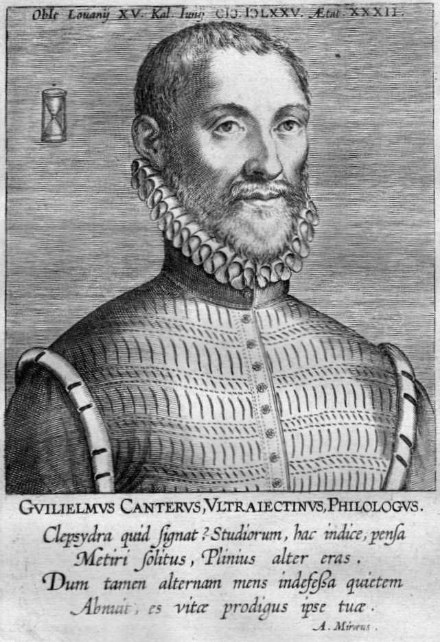 Willem Canter, dutch philologist (1542 - 1575)